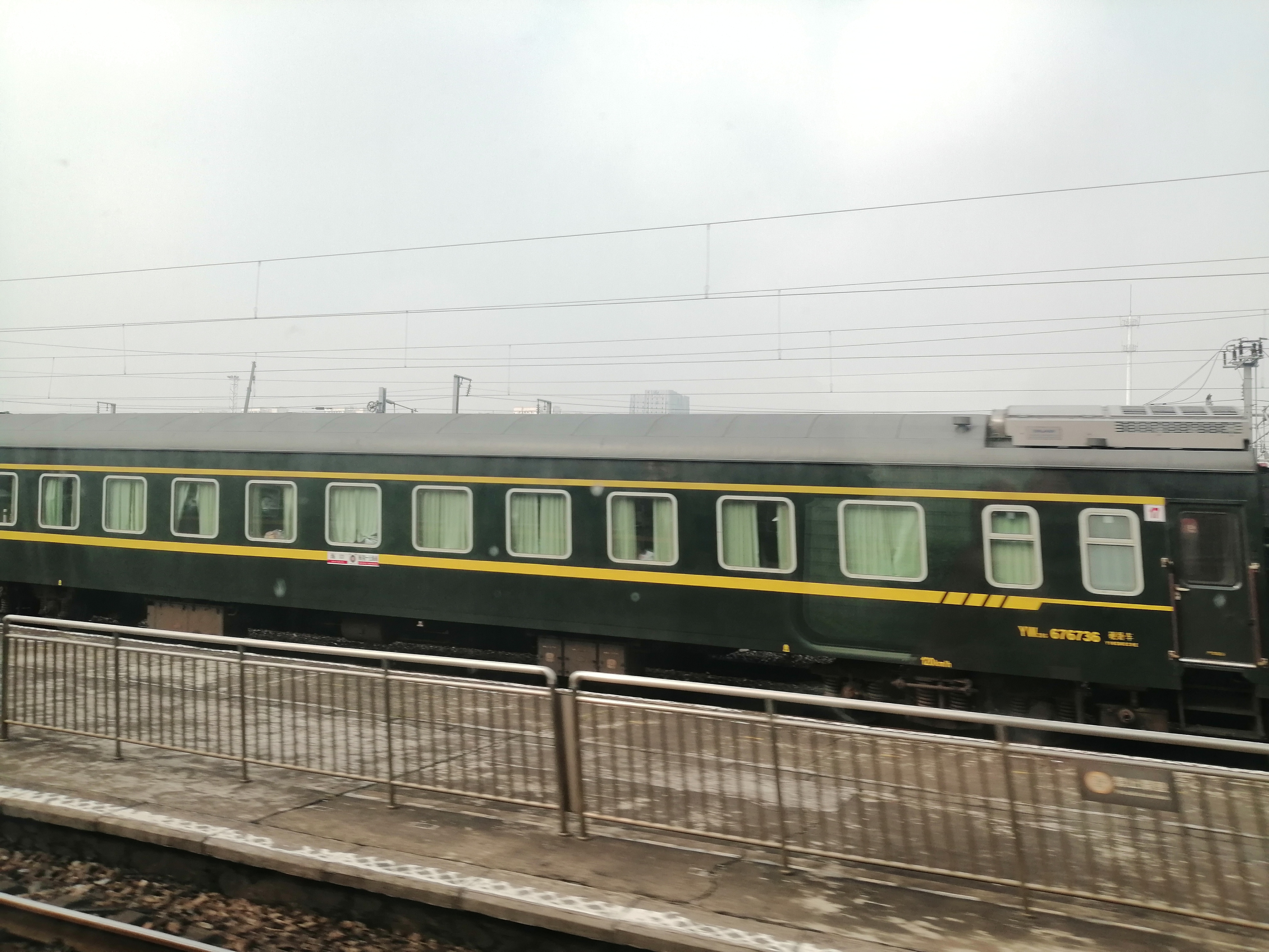 K512 train enters into Canton North Railway Station. This train is departed from Haikou, which is cross the strait. 中文（中国大陆）: K512次列车进入广州北站。该车从海口开来，为过海列车。